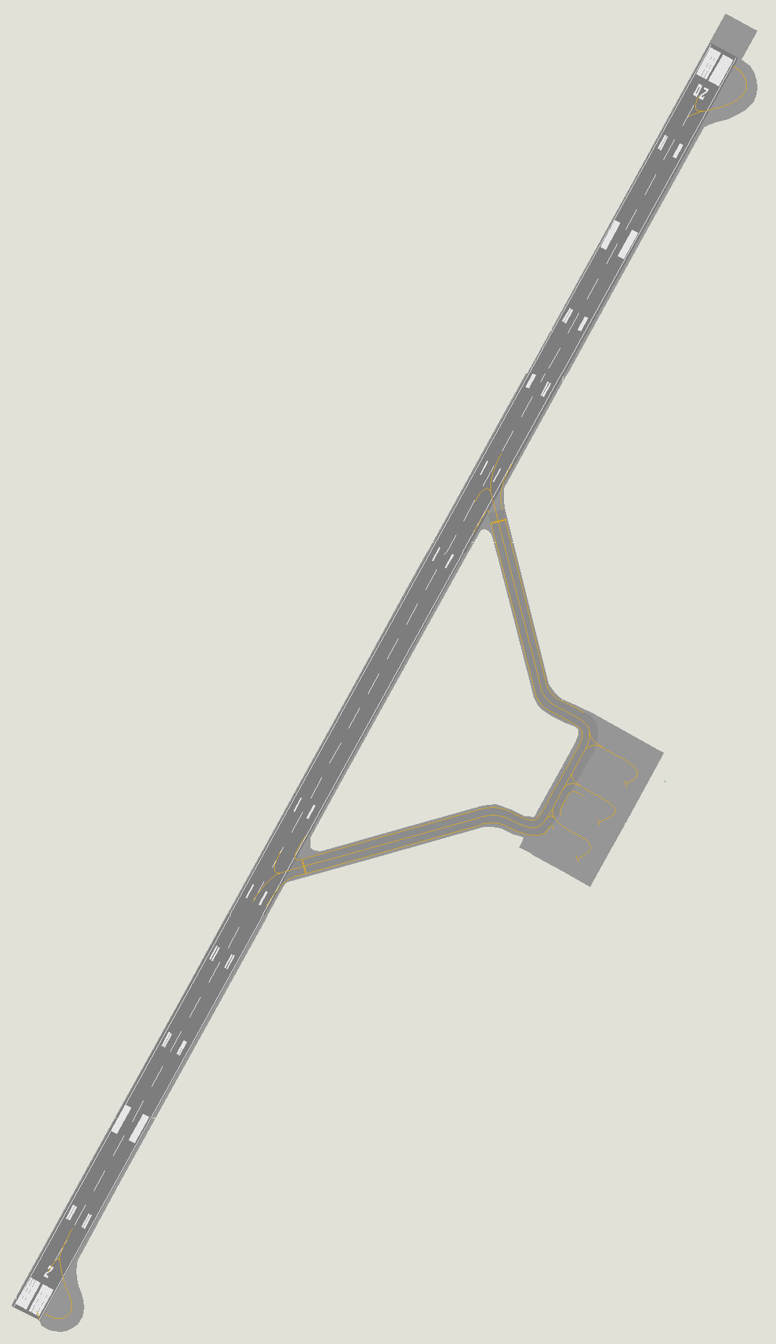 Aerial diagram of the International Amado Nervo Airport